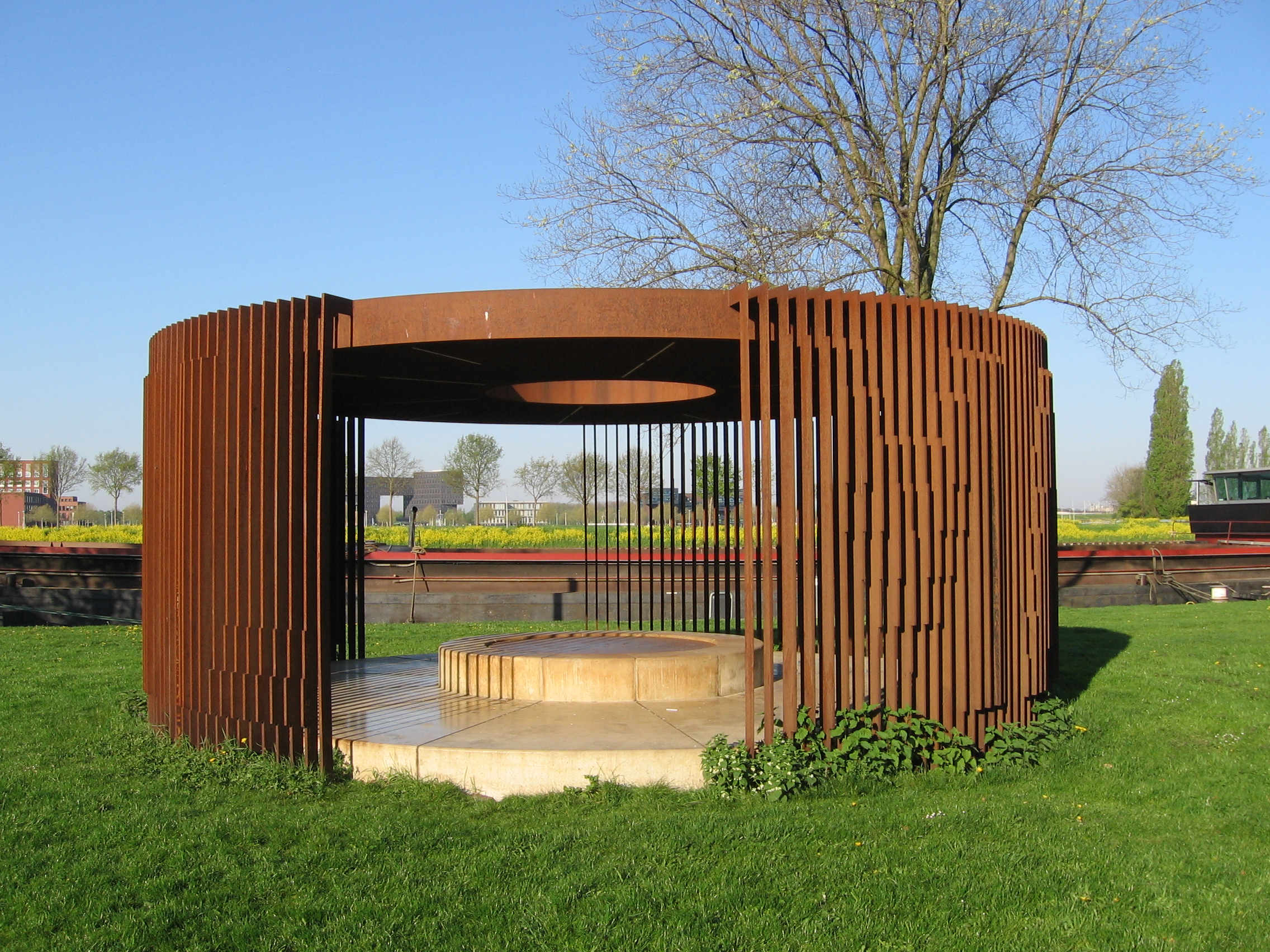 Martin Bril Pavilion, 2015, designed by Carve NL and Karel Martens, Kanaleneiland Utrecht